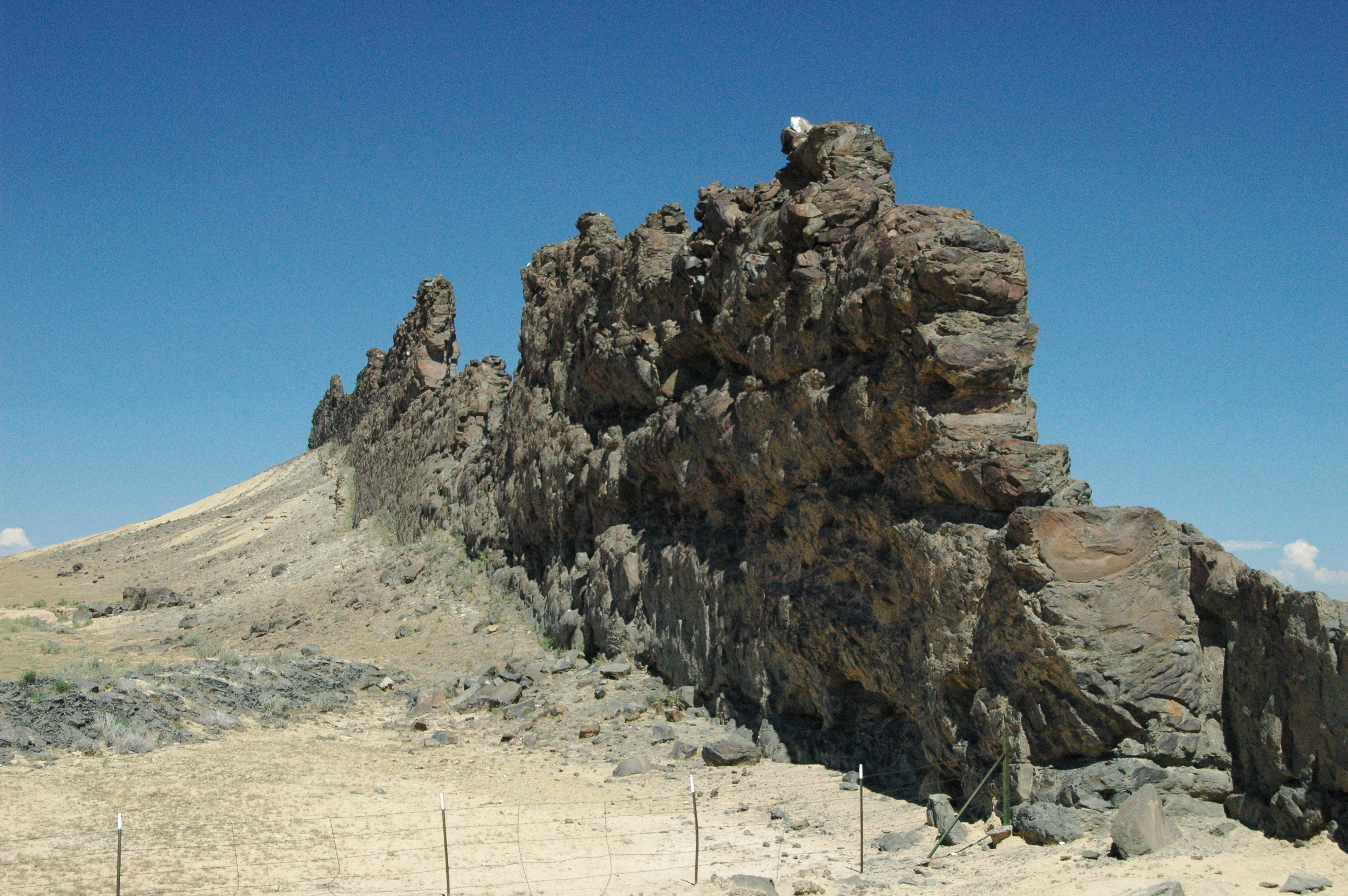 Dyke made of lamprophyre (minette). It is located beside Red Rock Highway, south of Ship Rock volcanic neck of Navajo Volcanic Field, New Mexico, USA. This dyke is of Oligocene age, about 27-32 million years old.